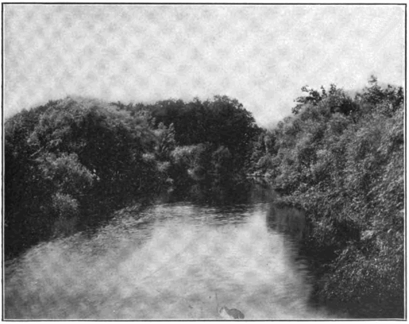 Fish creek opening of wood creek part of the barge canal